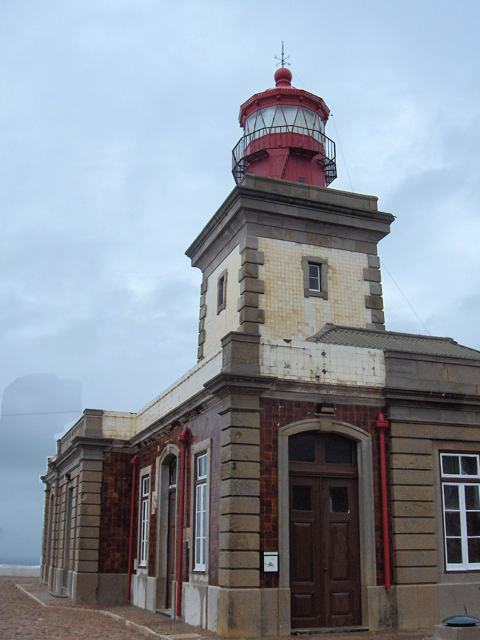 Cabo da Roca, westermost point of Portugal; near Sintra